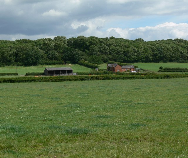 Launde Wood Farm With Launde Big Wood beyond.